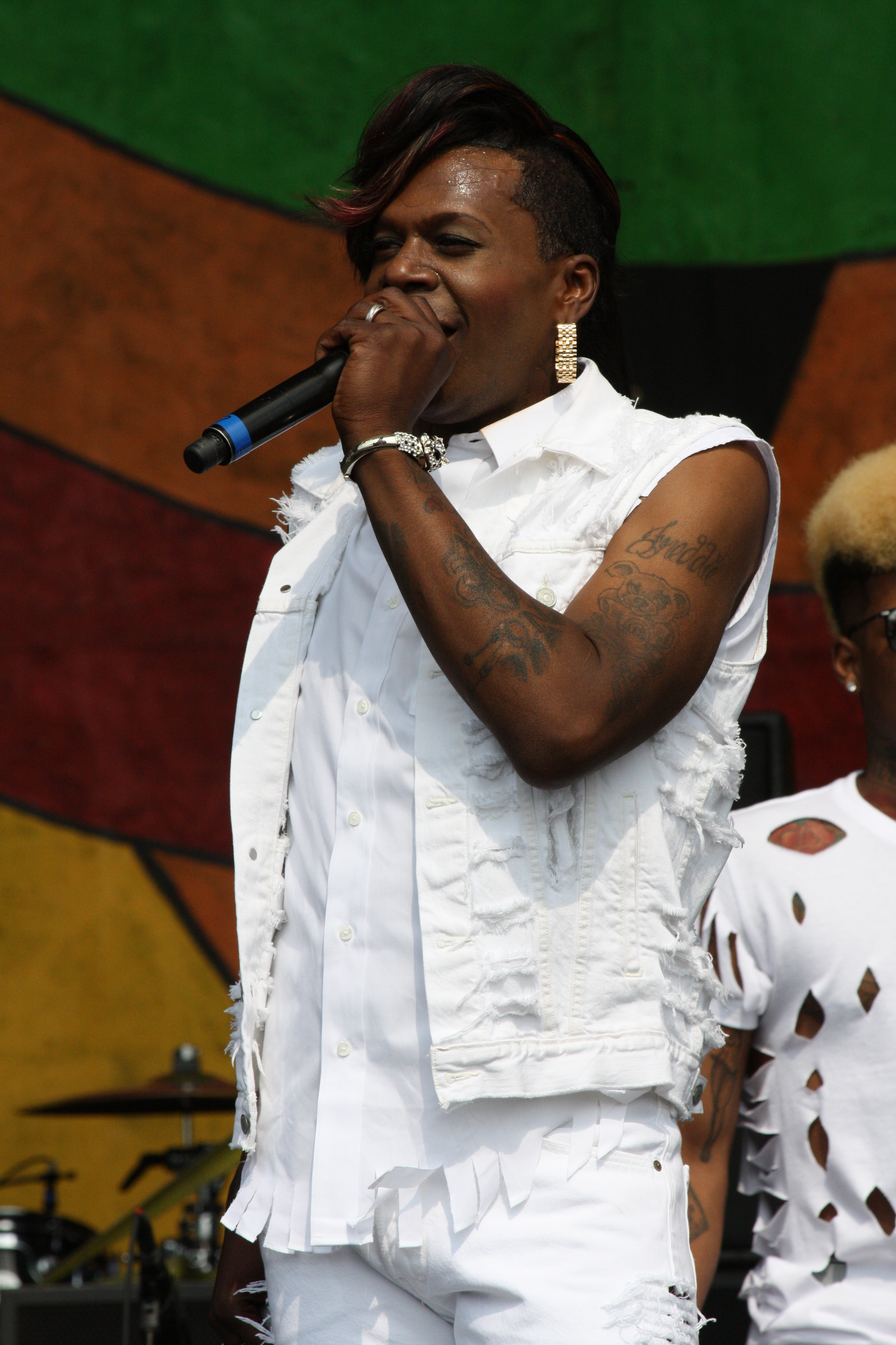 Big Freedia performing at New Orleans Jazz & Heritage Festival, 2014